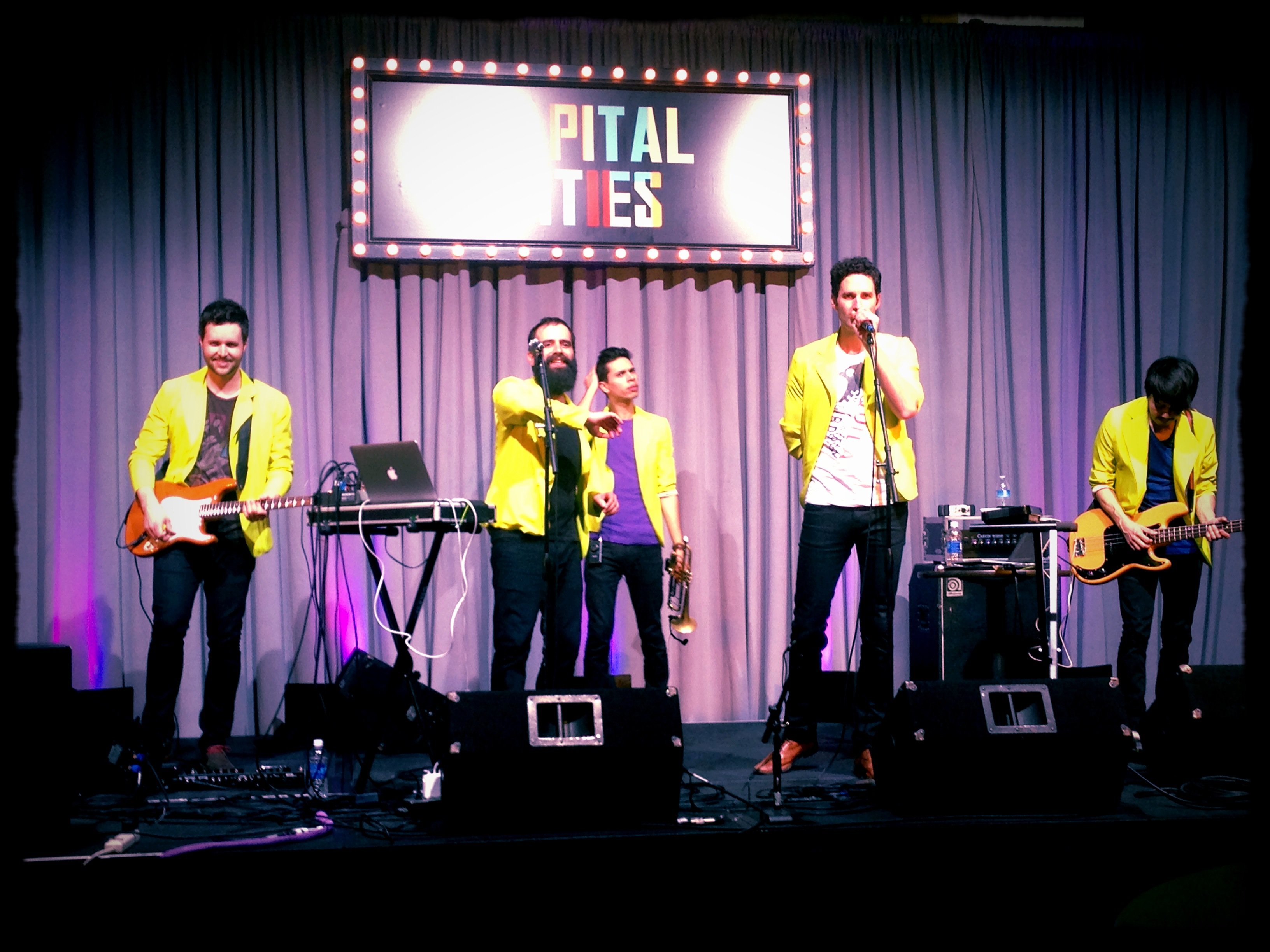 Capital Cities rockin' the 'hoo!